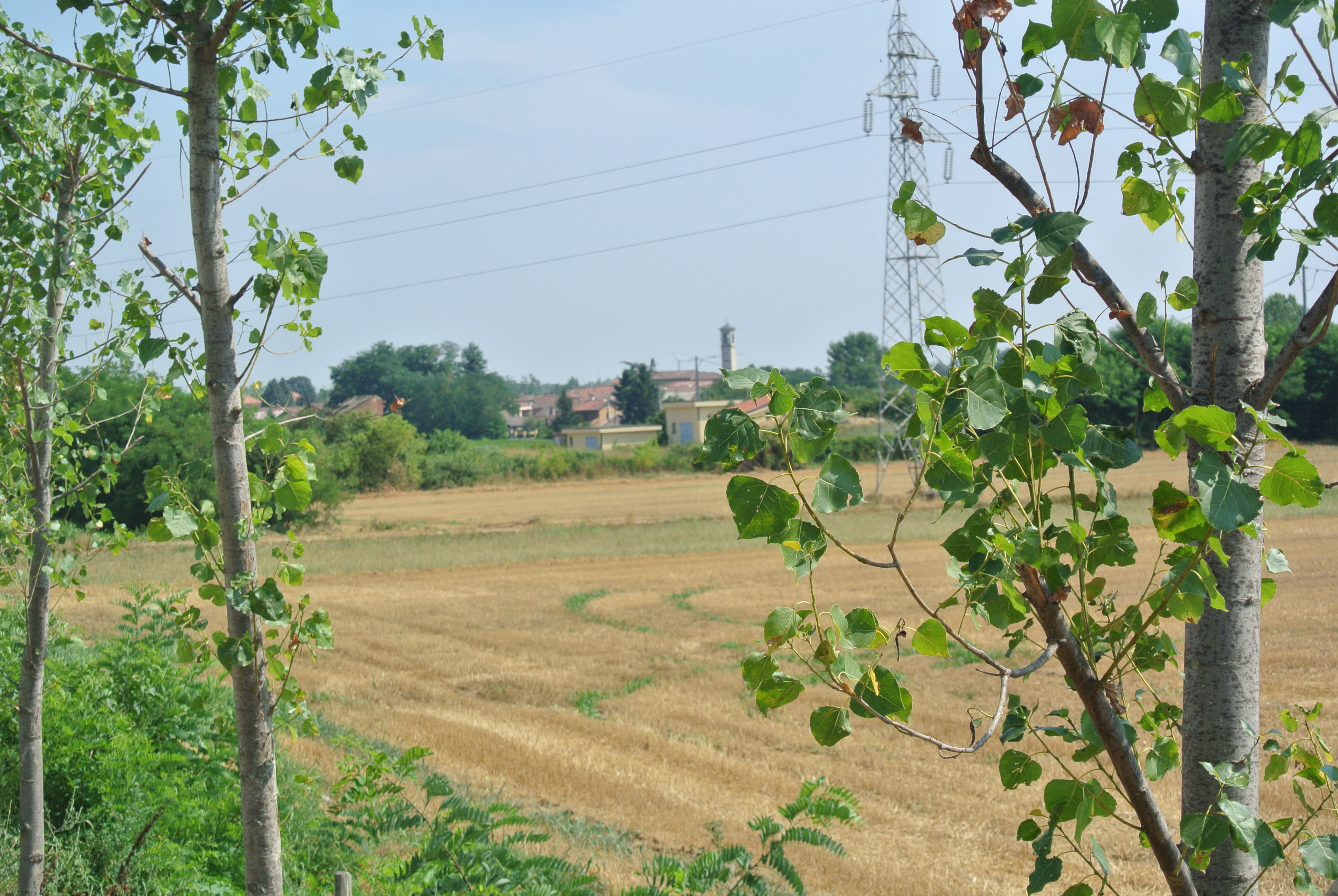 Genzone from the North